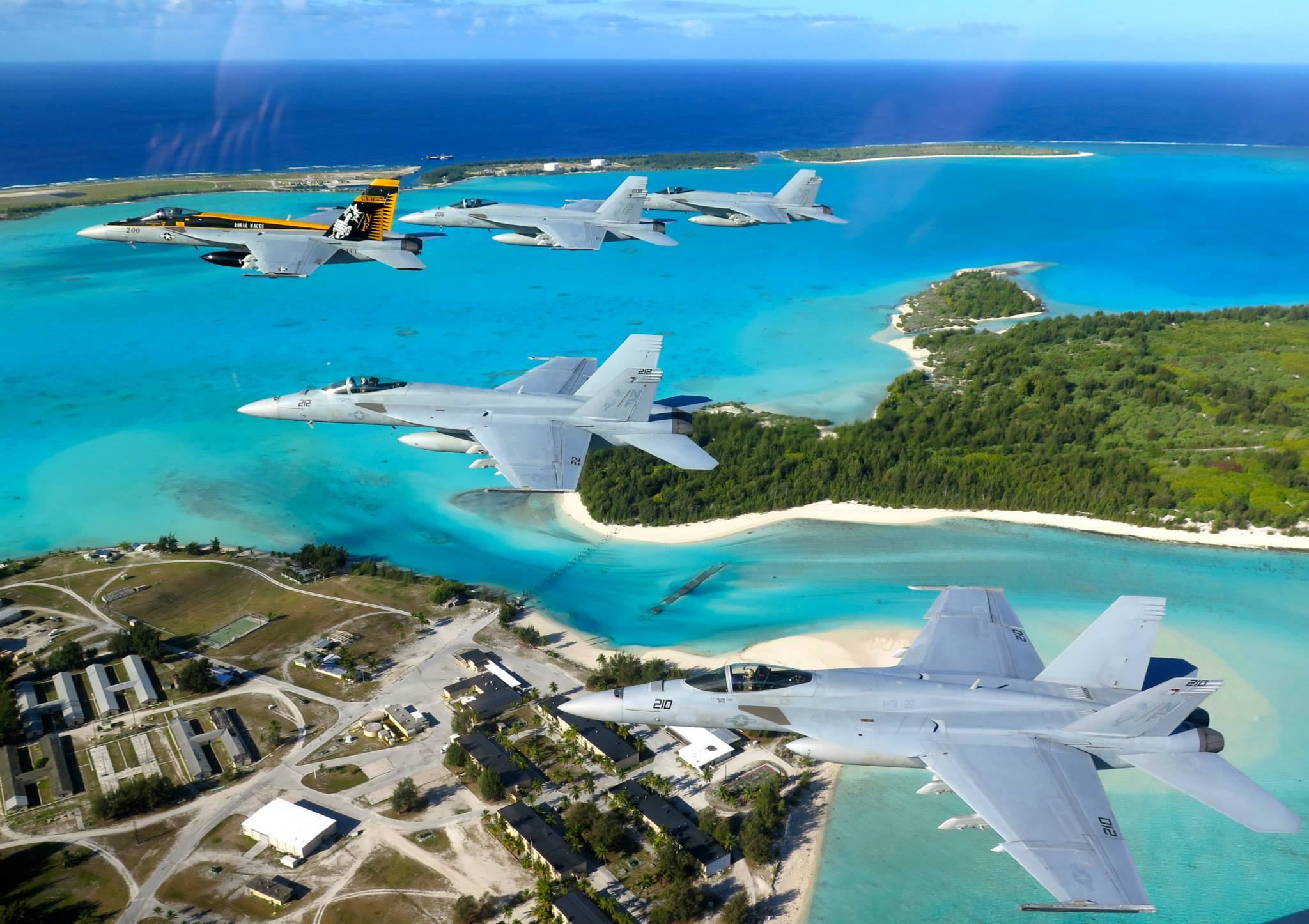 U.S. Navy F/A-18E Super Hornets from Strike Fighter Squadron 27 (VFA-27) "Royal Maces" fly over the "Downtown" area of Wake Island.